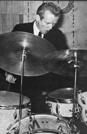 Matt Lucas behind the drums in a nightclub in South-East Missouri, 1957